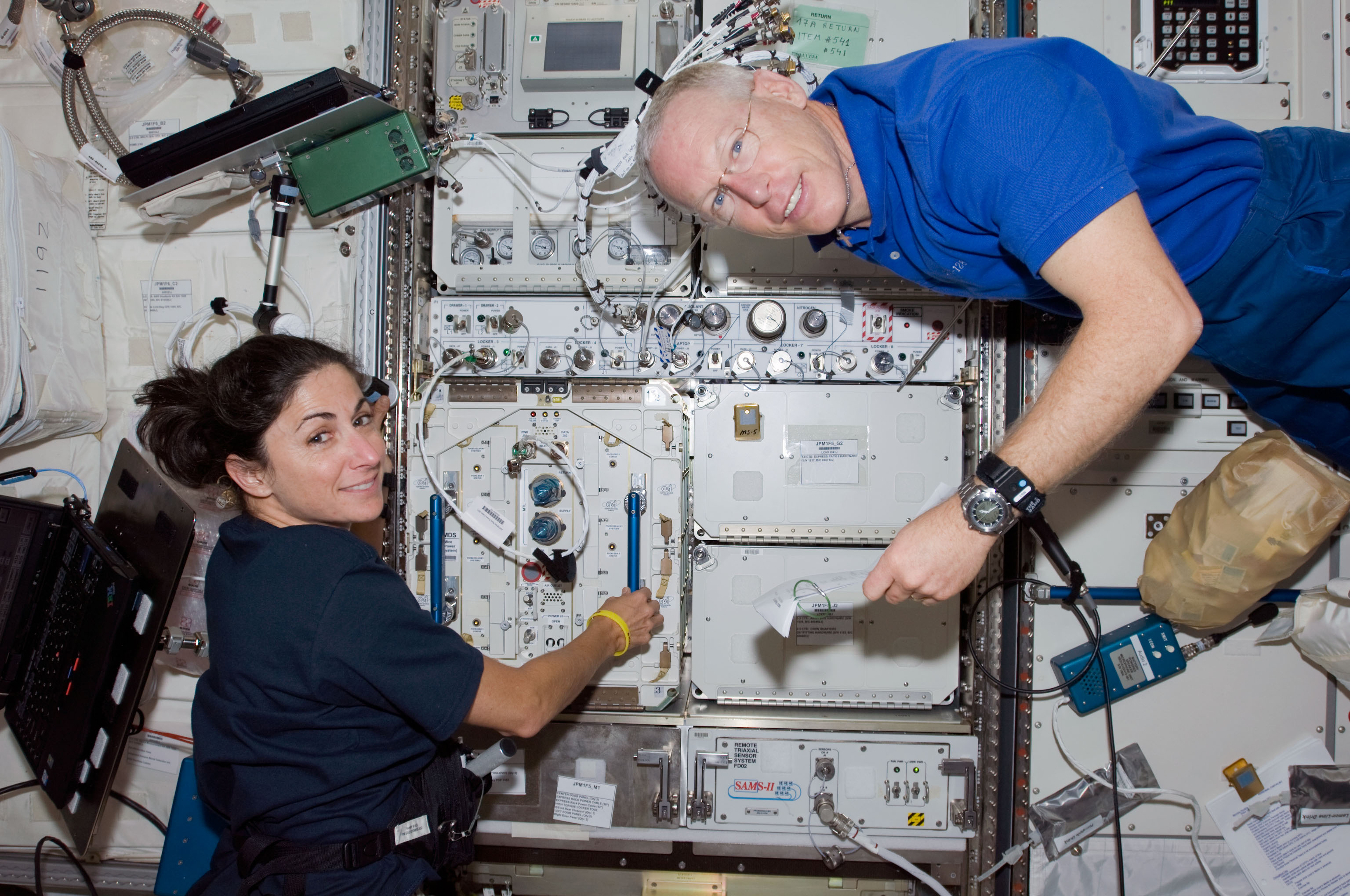 Astronauts Nicole Stott, Expedition 20 flight engineer; and Patrick Forrester, STS-128 mission specialist, work in the Kibo laboratory of the International Space Station while Space Shuttle Discovery remains docked to the station.